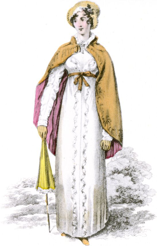 From Die Mode; Menschen und Mode im neunzehnten Jahrhundert, part I, page 128-129: Reproduction of 1813 illustration from La Belle Assemblée showing a woman wearing short cape as overgarment, and holding a parasol.